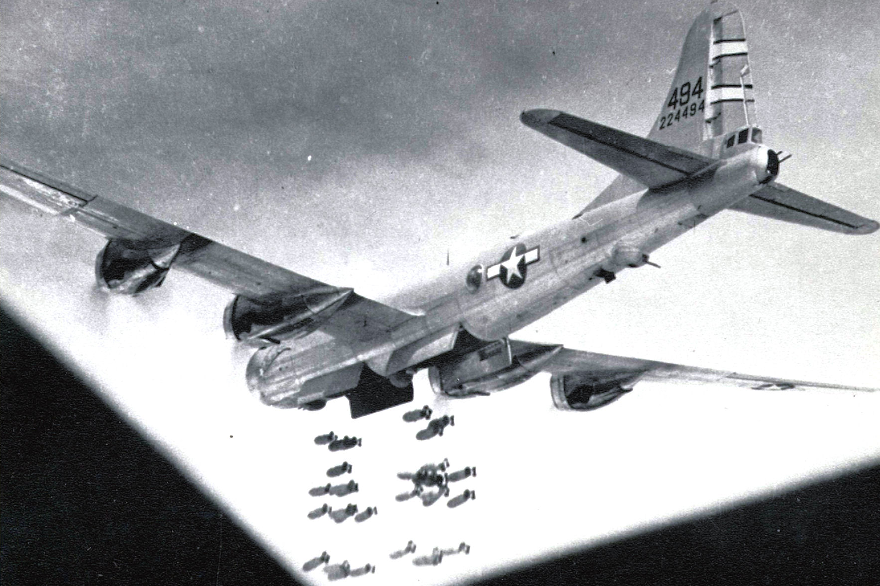 468th Bombardment Group Boeing B-29-30-BW Superfortress 42-24494 "Mary Ann" (792d Bombardment Squadron) attacking Hatto, Formosa on 18 October 1944 with high-explosive bombs. Overshot runway due to prop failure Jun 17, 1945 at West Field, Tinian. Written off.